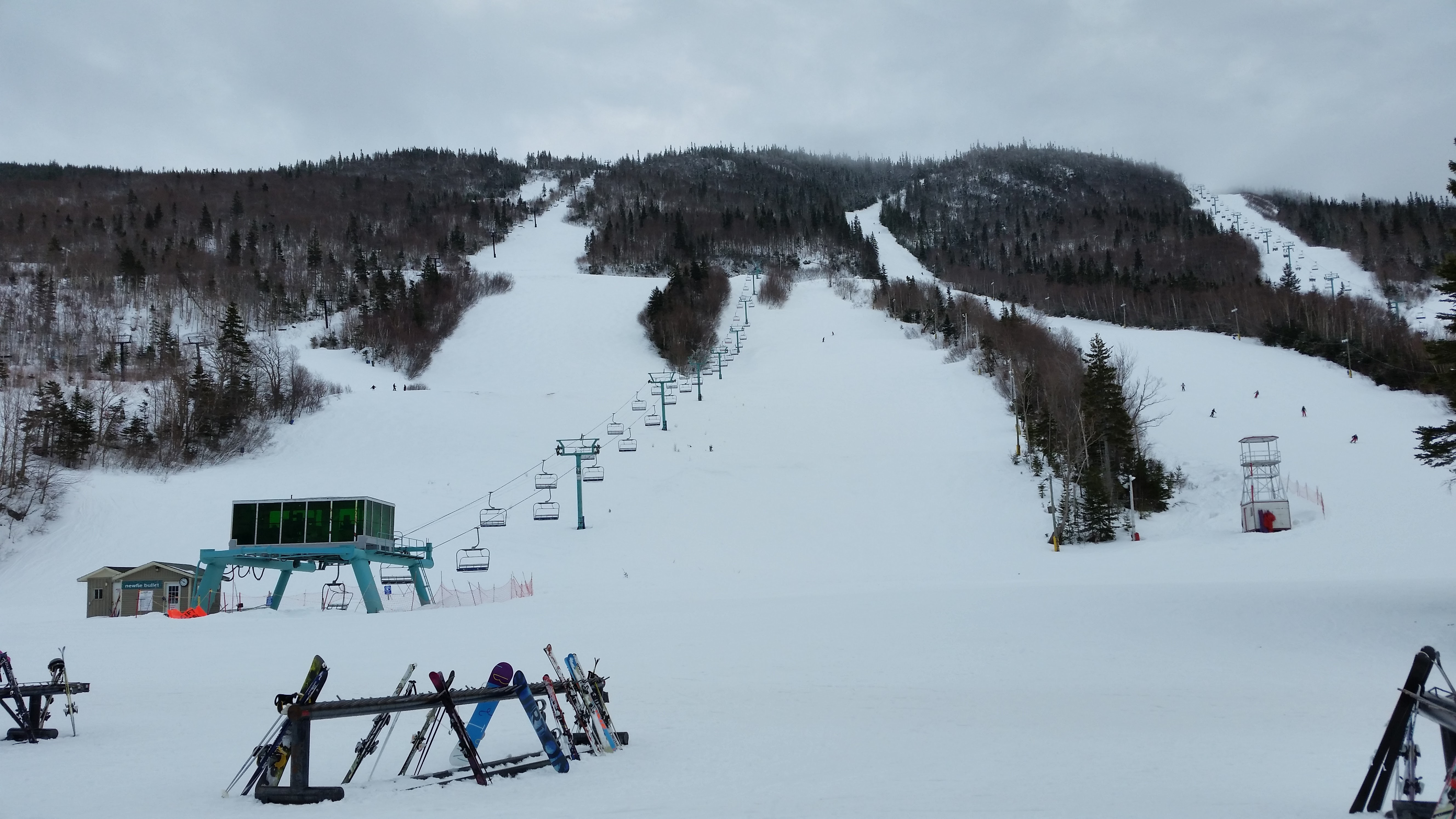 Ski Slopes Marble Mountain